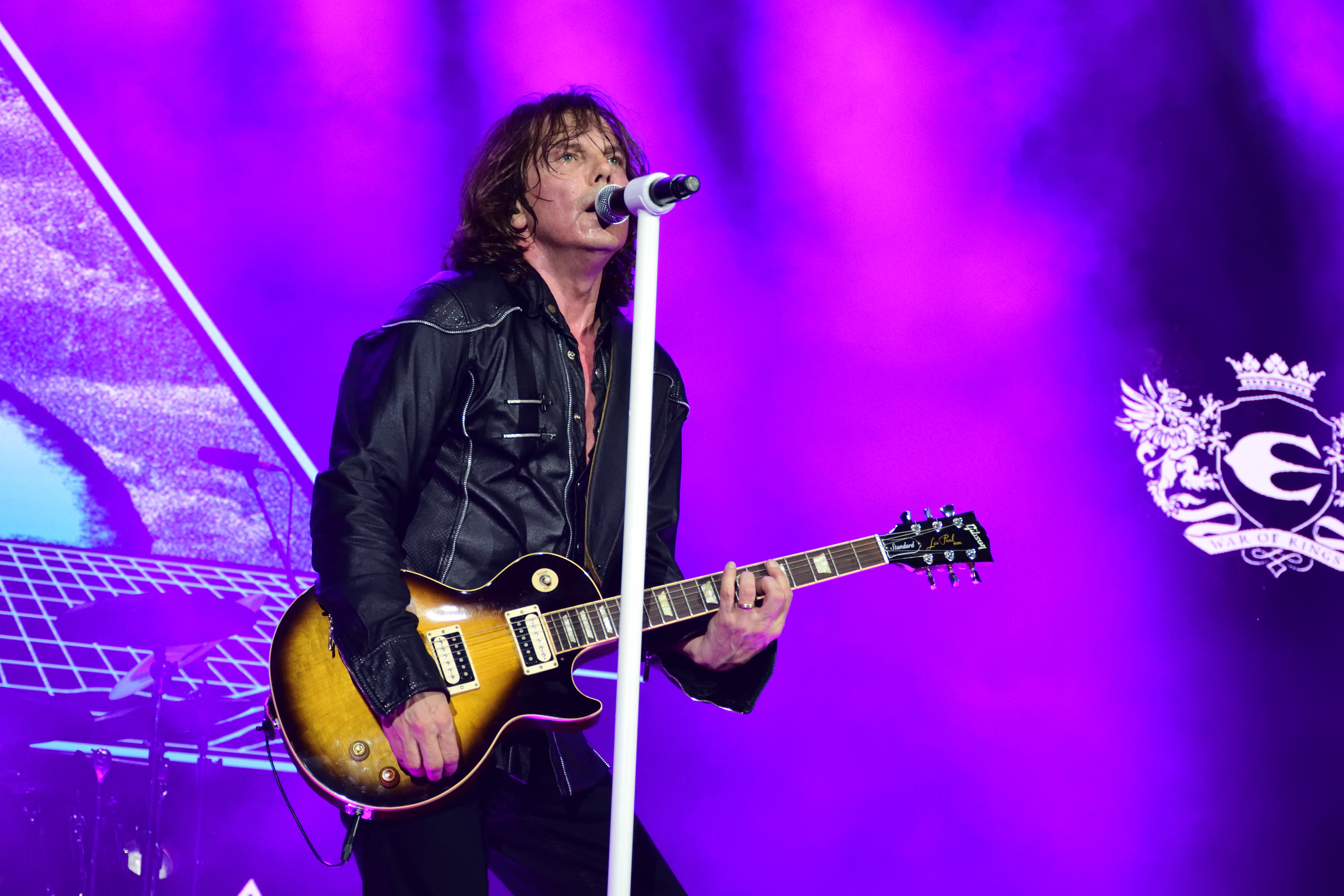 Joey Tempest